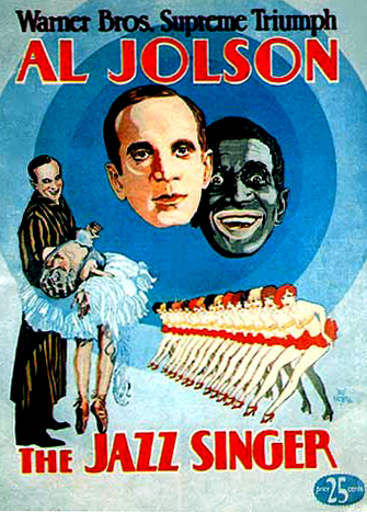 Low-resolution image of poster for the movie The Jazz Singer (1927), featuring star Al Jolson